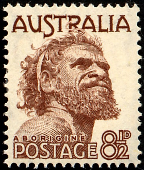 A postage stamp of Australia issued 1950